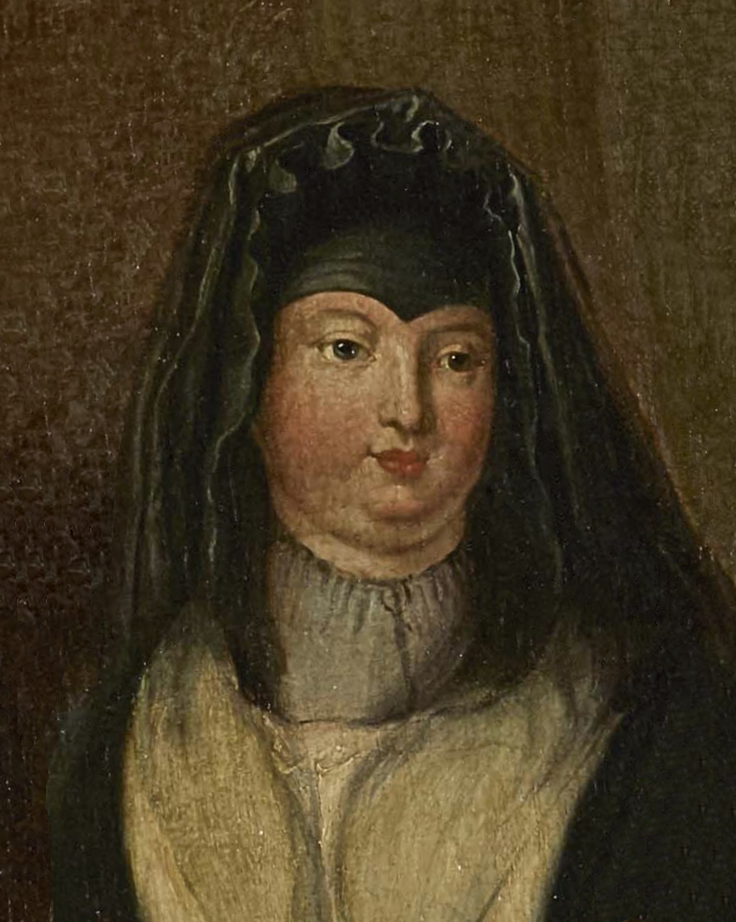 Louise Élisabeth d'Orléans, Duchess of Berry (1695-1719) as widow in 1714, detail from Louis XIV Receives Frederick Augustus of Saxony at Fontainebleau 27 September 1714